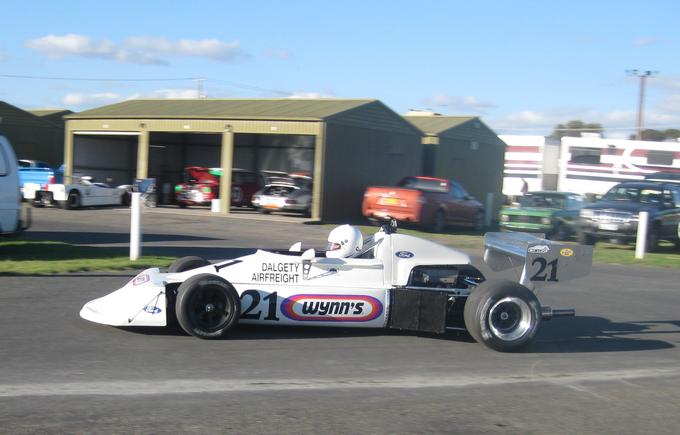 The March 77B Ford of Shane Kuchel at the All Historic Races at Mallala Motor Sport Park on 23 April 2011